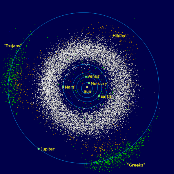 The inner Solar System, from the Sun to Jupiter. Also includes the asteroid belt (the white donut-shaped cloud), the Hildas (the orange "triangle" just inside the orbit of Jupiter), the Jupiter trojans (green), and the near-Earth asteroids. The group that leads Jupiter are called the "Greeks" and the trailing group are called the "Trojans" (Murray and Dermott, Solar System Dynamics, pg. 107)This image is based on data found in the JPL DE-405 ephemeris, and the Minor Planet Center database of asteroids (etc) published 2006 Jul 6. The image is looking down on the ecliptic plane as would have been seen on 2006 August 14. It was rendered by custom software written for Wikipedia. The same image without labels is also available at File:InnerSolarSystem.png.